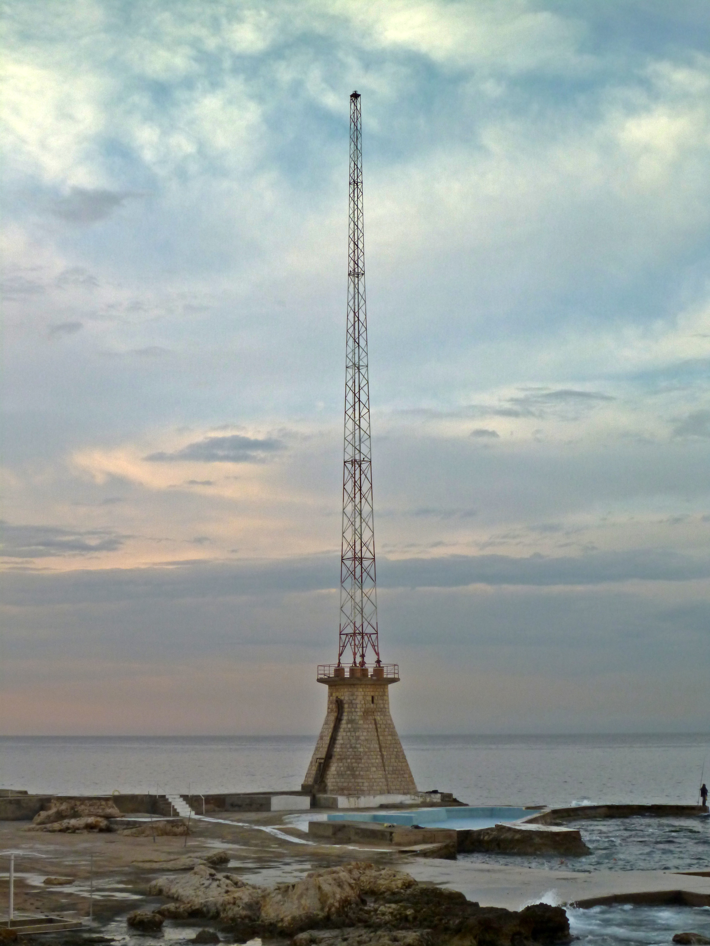 Communication tower in Hamra (Beirut), located at the sea directly in front of the American University of Beirut, called ABU-tower or University-Tower